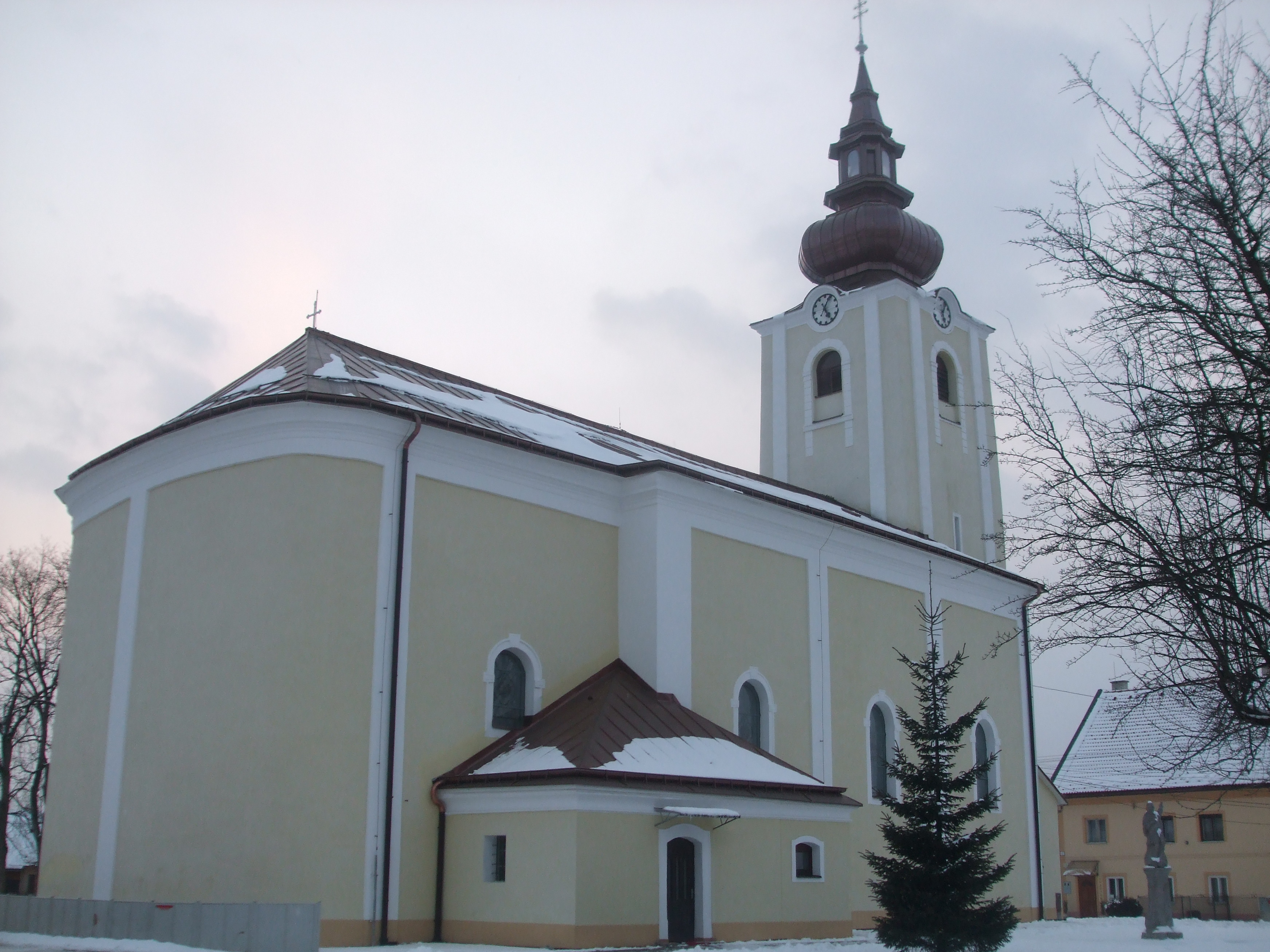 church in Predmier, Slovakia